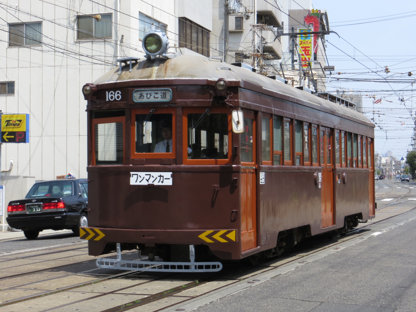 Hankai Tramway #166.